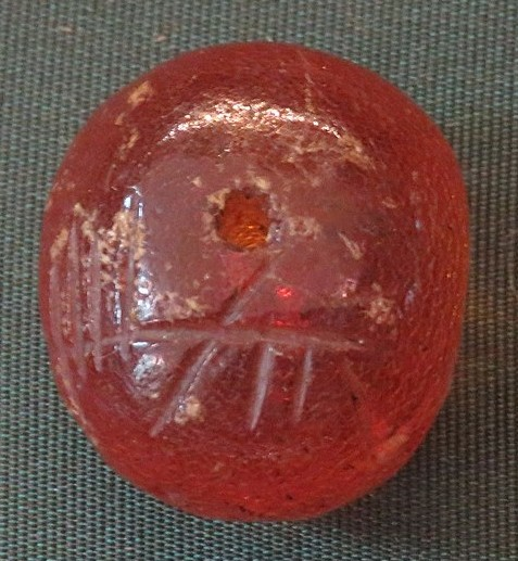 Amber bead with ogham inscription at the British Museum (1888,0719.119). From Ennis, County Clare, Ireland, 5th - 7th century. Inscription has been read as ATUCMLU ᚐᚈᚒᚉᚋᚂᚒ (only ..ML ᚋᚂ is visible on this image)